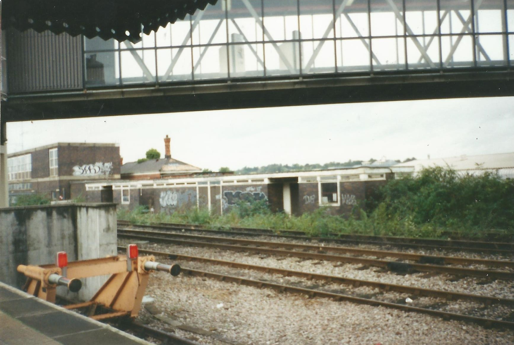 Long demolished staff huts behind a bay platform for trains to Slough, W. Drayton, Ealing Broadway and Paddington.